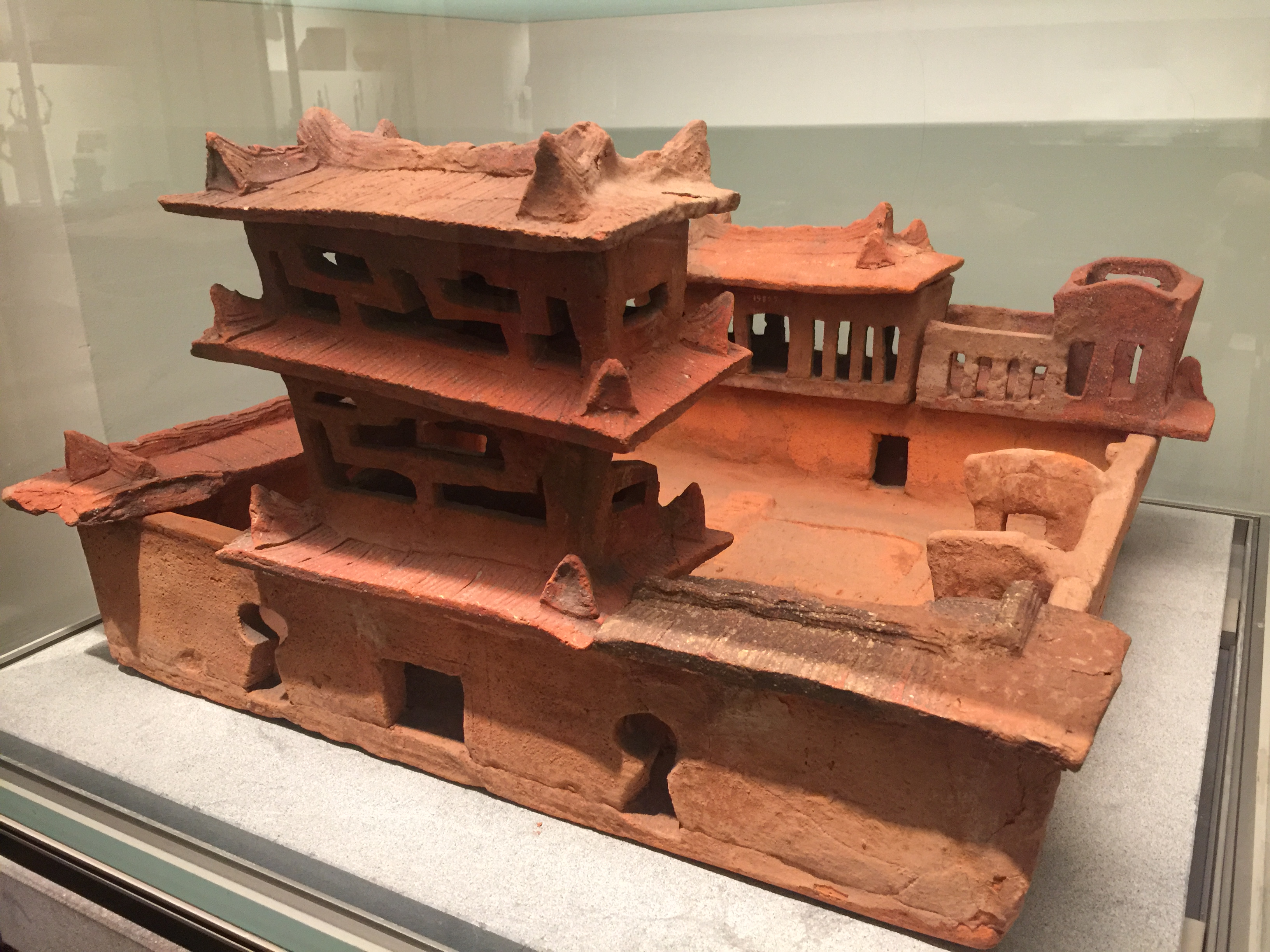 Funerary model of a mansion. Found in Bỉm Sơn, Thanh Hóa, Vietnam. Han style, 1st-3rd century AD. Guimet Museum.